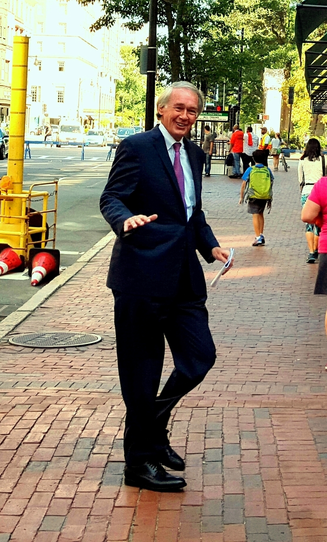 Markey attending the Greater Boston Labor Council’s annual Labor Day Breakfast in Boston 92015). Other information Cropped from the original.